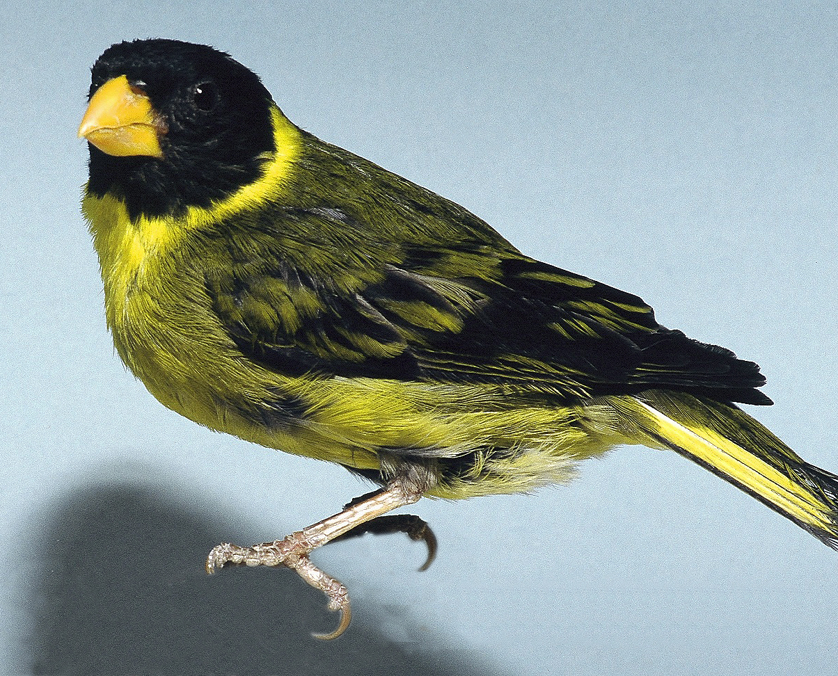 Male Antillean siskin